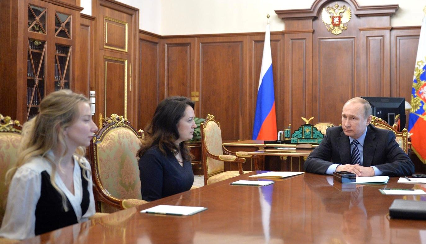 Vladimir Putin meets with Marianna Voloshina and Ekaterina Korneluk 2016-05-25 01